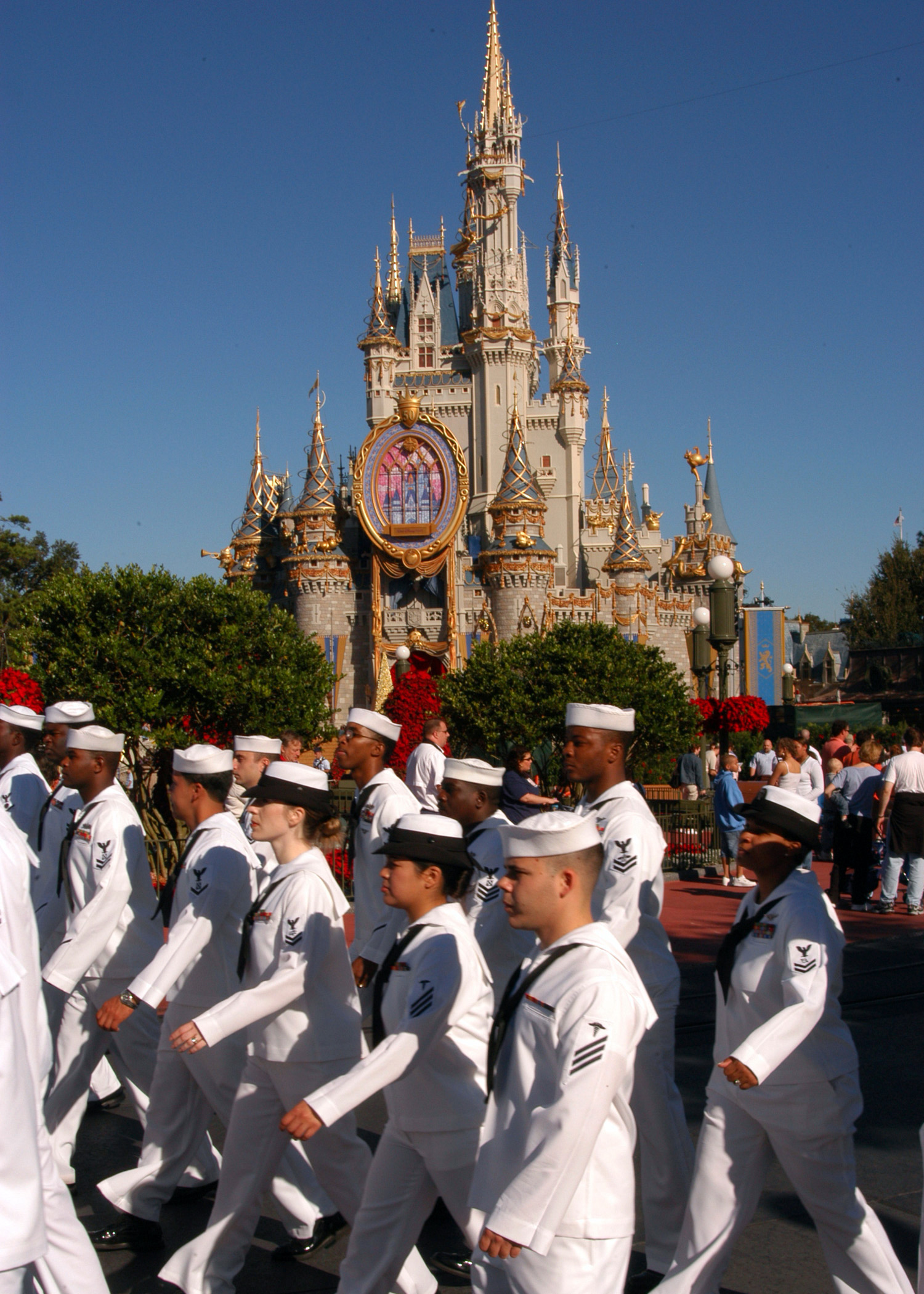 Orlando, Fla. (Dec. 4, 2005) - Sailors from various U.S. Navy commands throughout Navy's Southeast Region march before Cinderella's Castle before entering onto Main St. inside Walt Disney World's Magic Kingdom. The Sailors were greeted by family members and guests and joined Disney World's Military Salute for its 2005 Christmas Day Parade taping. U.S. Navy photo by Photographer’s Mate 3rd Class Adam J. Herrada (RELEASED)